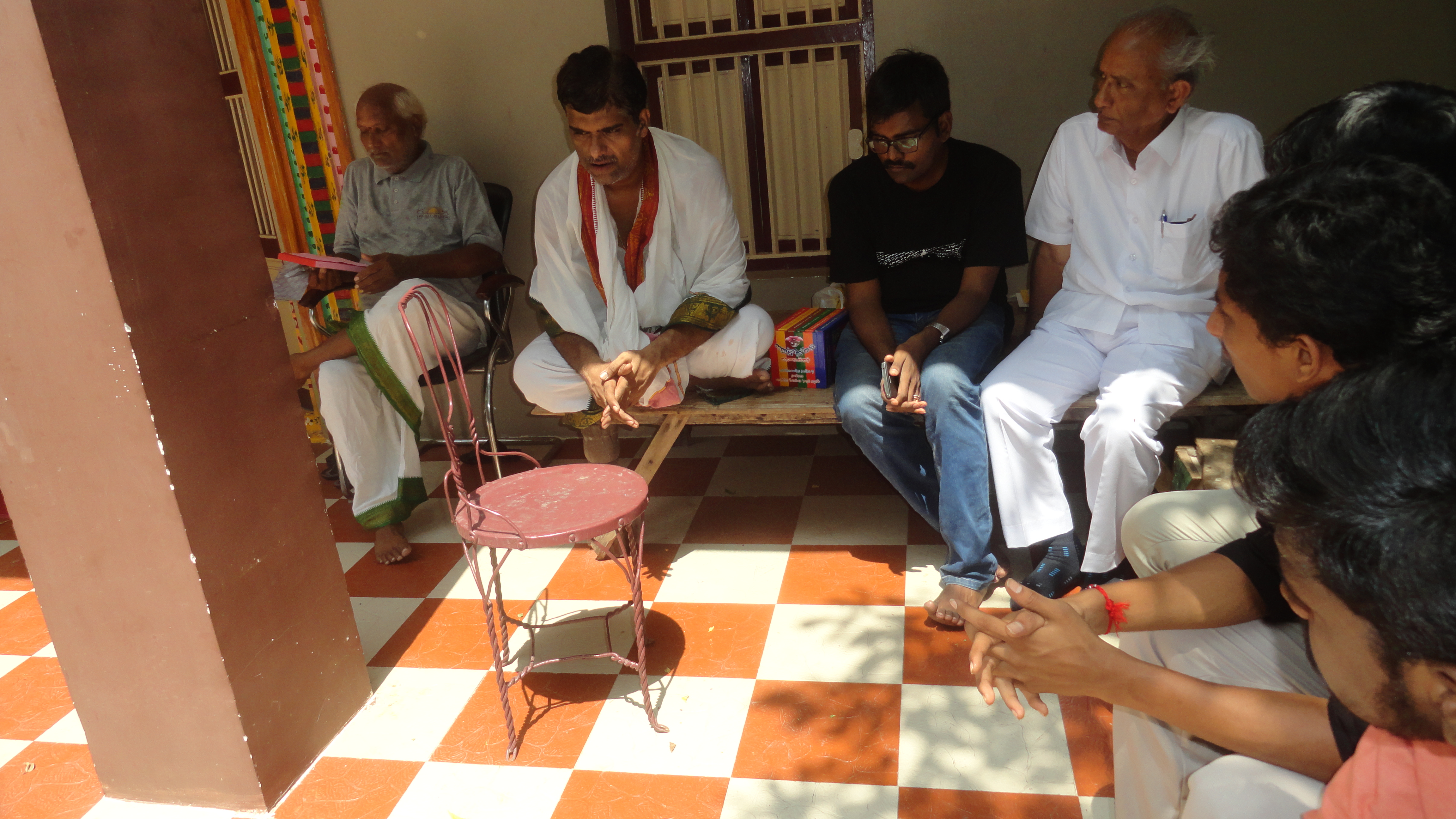 The house of great TELUGu poet Viswanatha satyanarayana, at Vijayawada